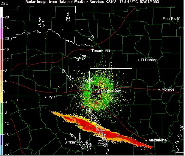 National Weather Service radar in Shreveport, Louisiana detects debris from the Space Shuttle Columbia (STS-107), which broke up on atmospheric re-entry